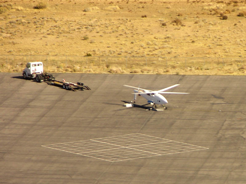 Boeing A160 Hummingbird helicopter UAV during a test run at Victorville, California